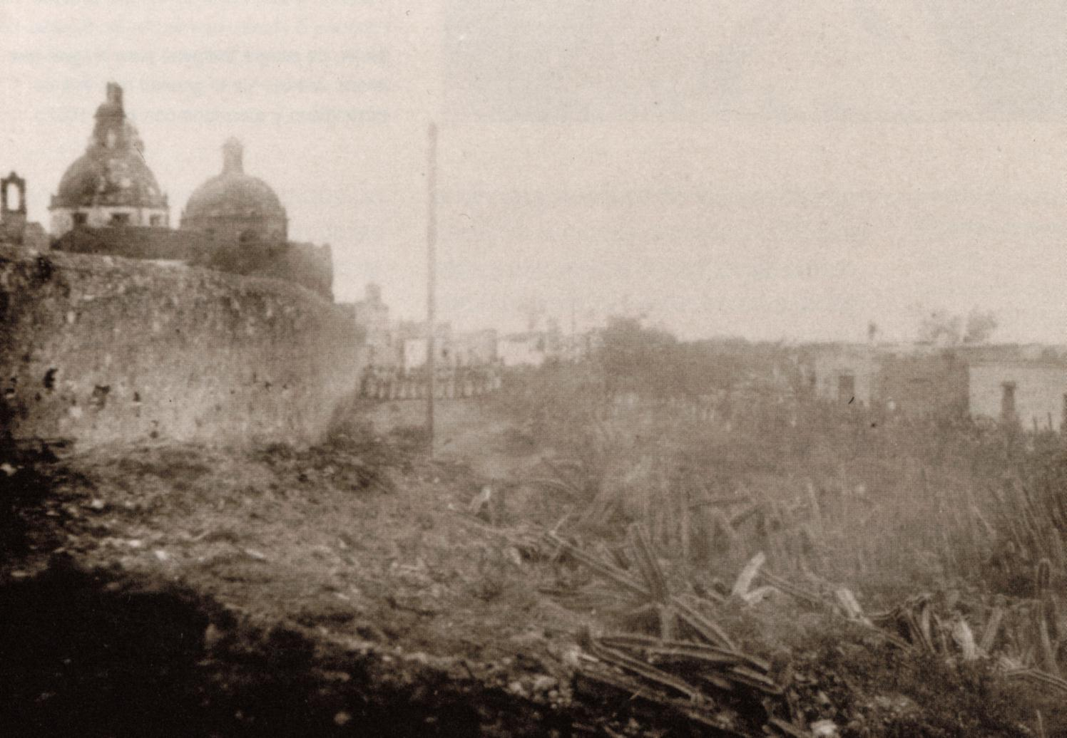 Entrance of the militiamen of the 6th Battalion National Guard of Tetela of Ocampo to the plaza of Querétaro, Querétaro, Mexico.